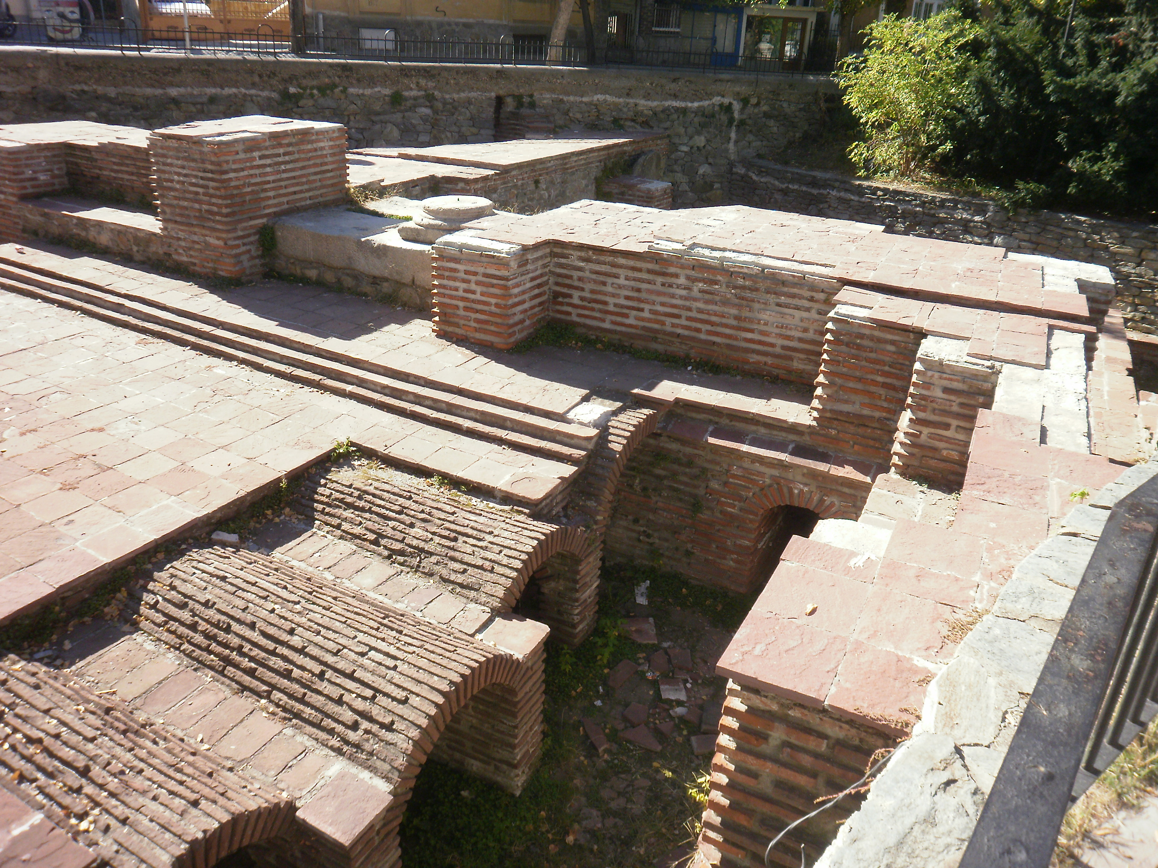 Roman thermae complex in Kyustendil, Bulgaria.